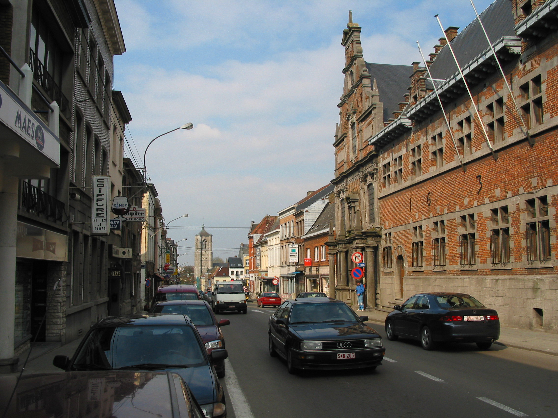 Braine-le-Comte (Belgium), the Dominican order convent (XVIIth century).